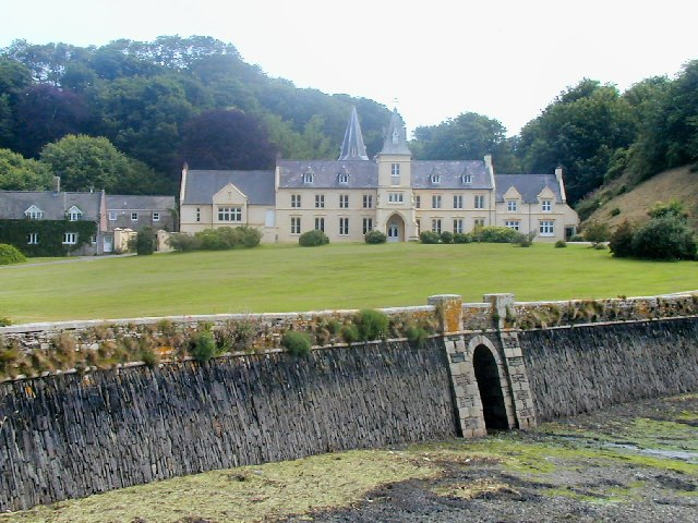 Place House, St Anthony. The retaining wall follows the line of an earlier tide mill dam, the area of the old mill pond now being lawn.